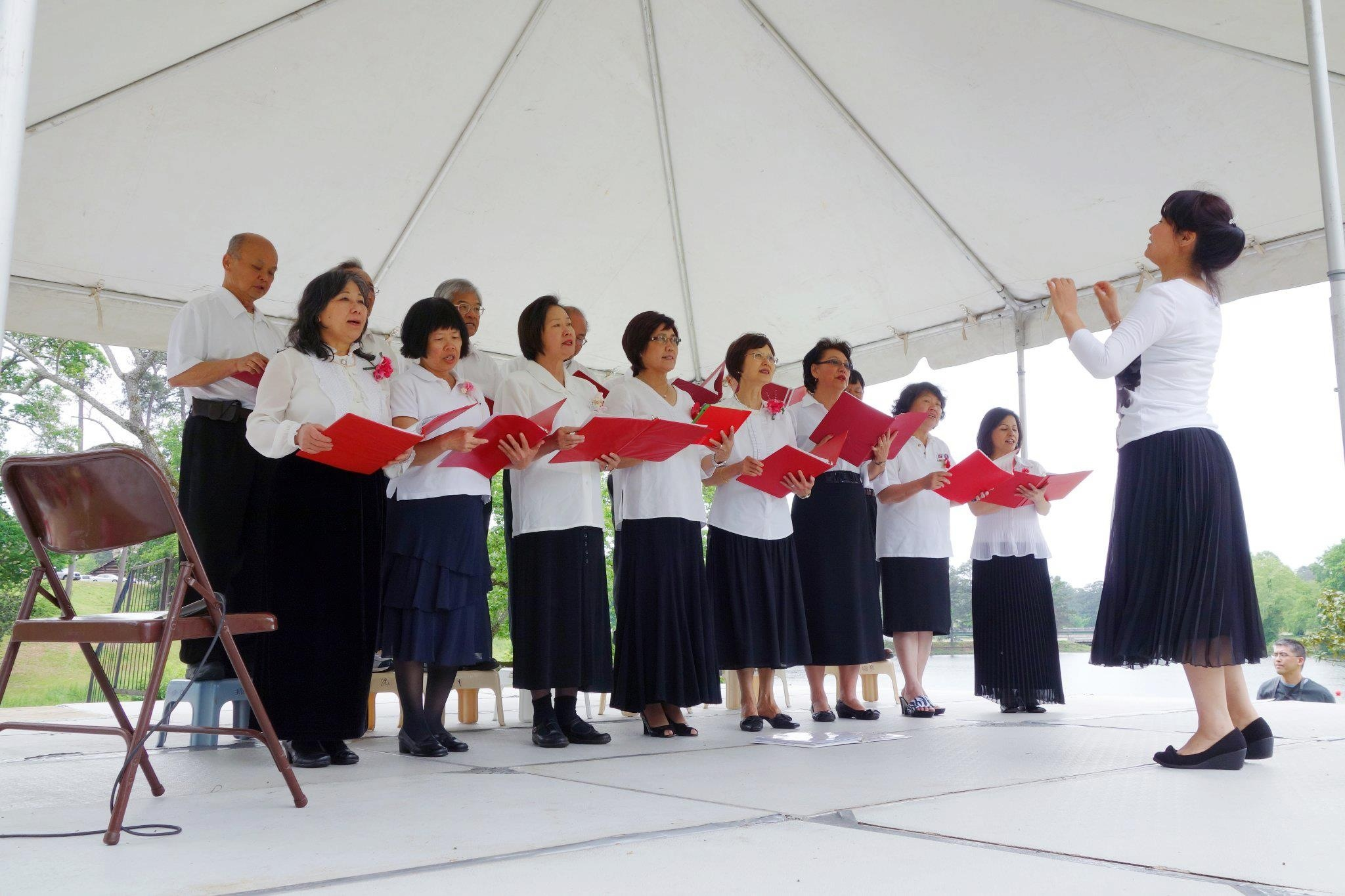 2013 Augusta Goodwill dragon boat races